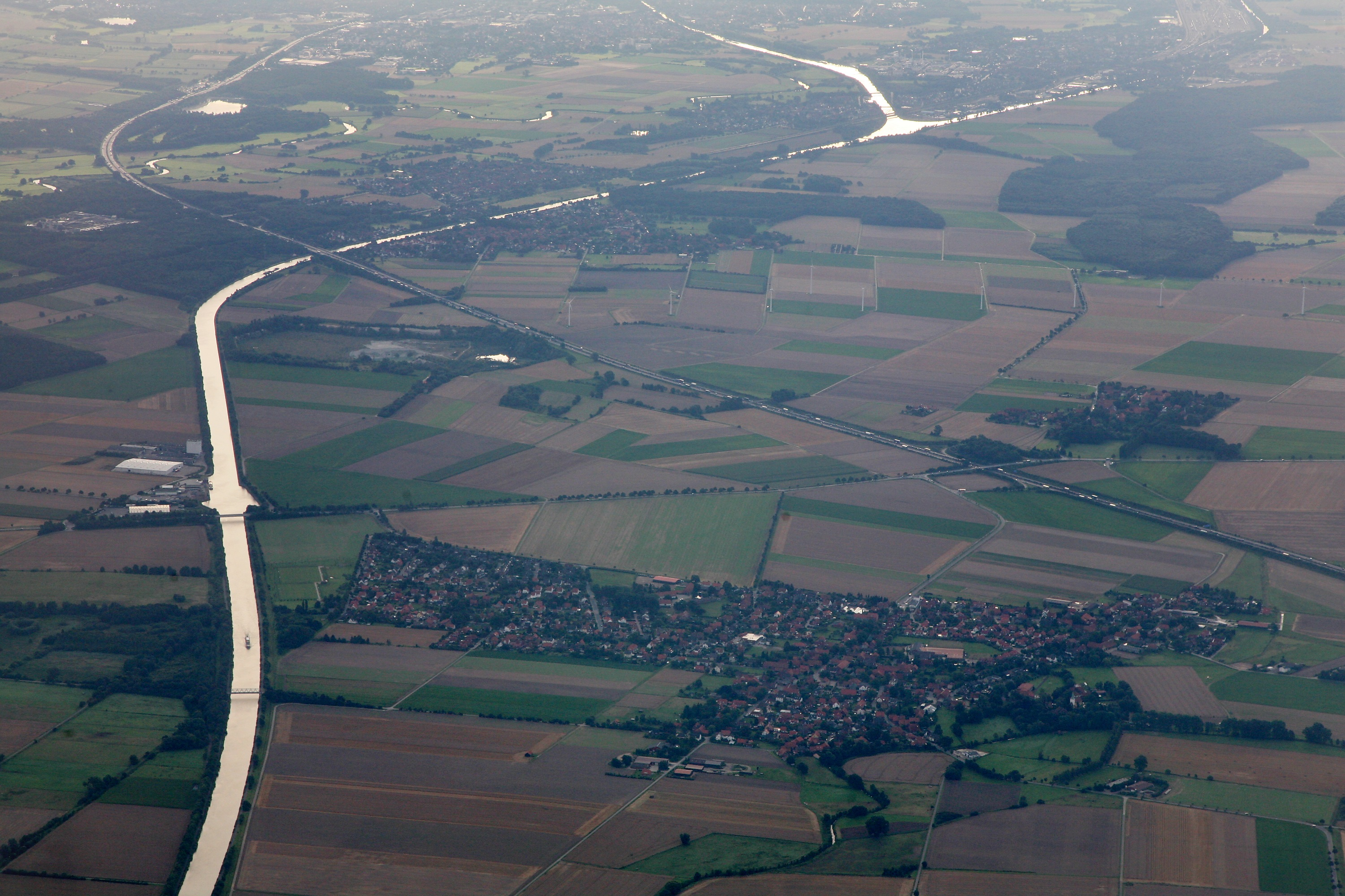 Aerial shot of Kolenfeld, part of Wunstorf near Hannover in Germany. Mittelland channel and A2 motorway are visible.